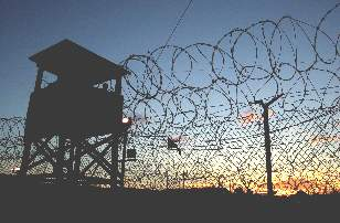 Camp X-Ray is the holding facility for detainees held at Naval Base Guantanamo Bay, Cuba, during Operation Enduring Freedom. Photo by Photographer's Mate 1st Class Shane T. McCoy, USN